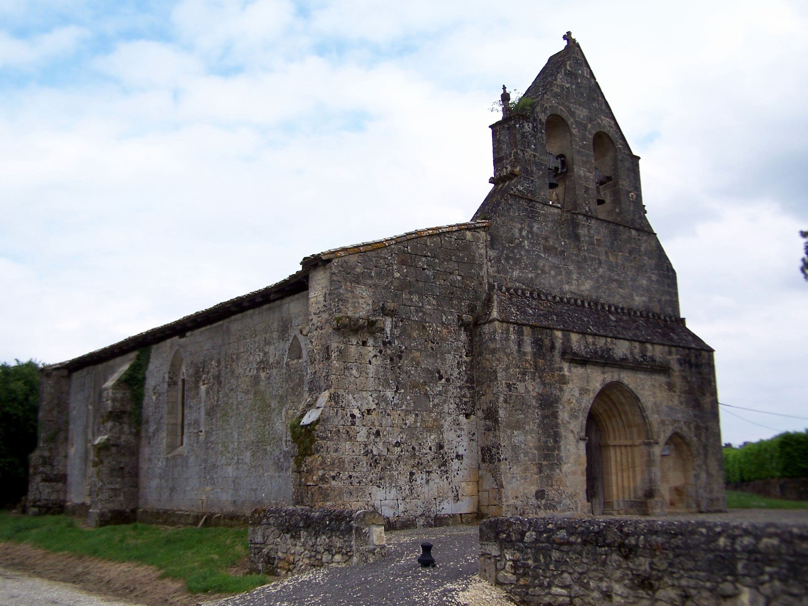 Saint-Médard church of Montignac (Gironde, France)